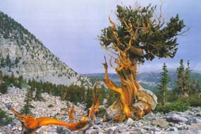 Great Basin Bristlecone Pine (Pinus longaeva), Great Basin National Park, Nevada.